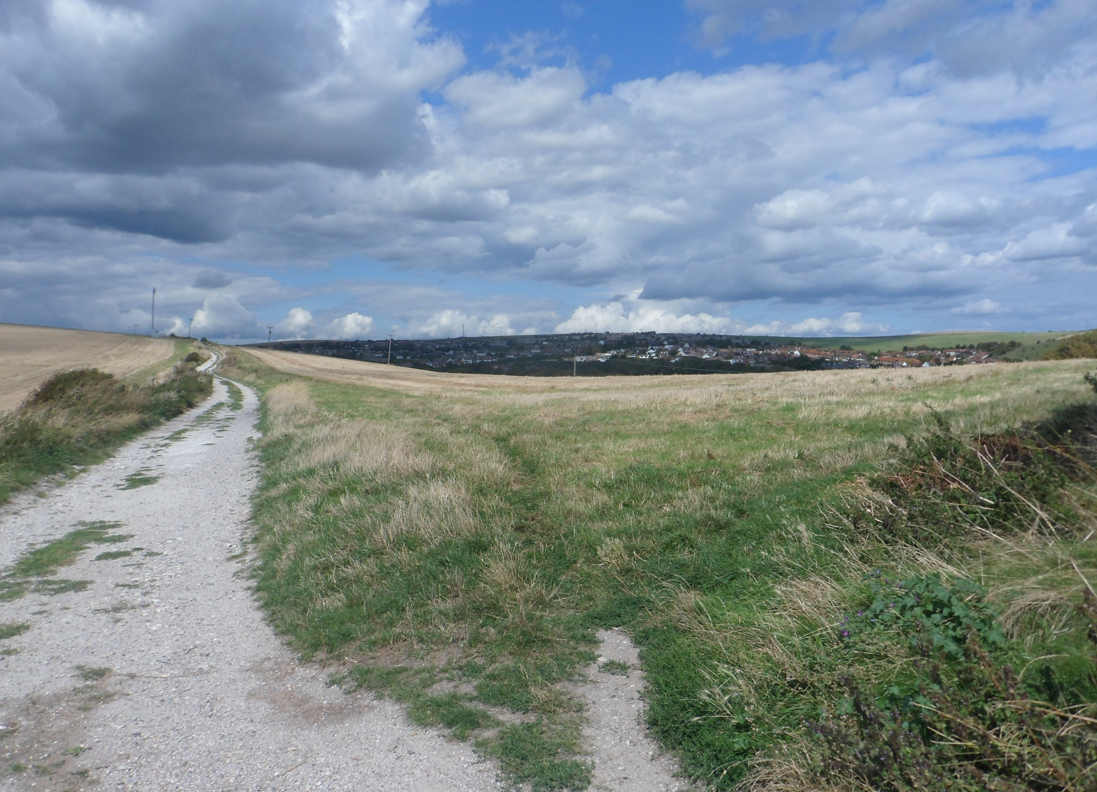 Part of the Woodingdean estate (background) and Happy Valley (foreground) seen from Ovingdean Road, Ovingdean, City of Brighton and Hove, England.